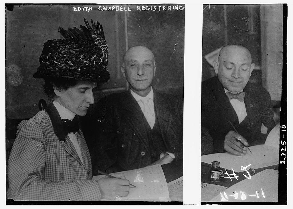 Bain News Service, publisher. Mary Edith Campbell registering [between 1910 and 1915] 1 negative : glass ; 5 x 7 in. or smaller. Notes: Title from unverified data provided by the Bain News Service on the negatives or caption cards. Forms part of: George Grantham Bain Collection (Library of Congress). Subjects: Suffrage Format: Glass negatives. Repository: Library of Congress, Prints and Photographs Division, Washington, D.C. 20540 USA, General information about the Bain Collection is available at Persistent URL: Call Number: LC-B2- 2325-10